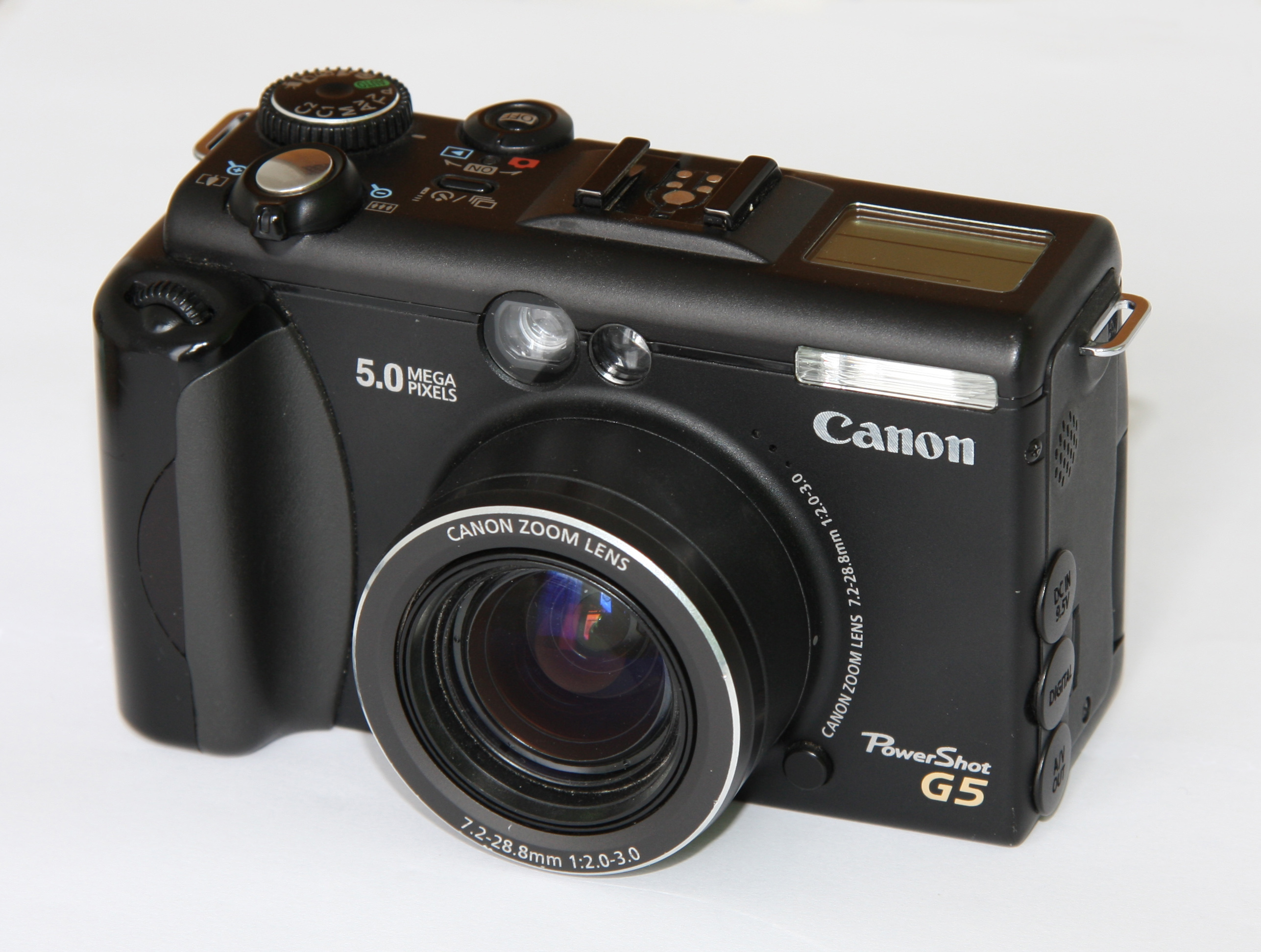 Front view of Canon PowerShot G5 digital camera.